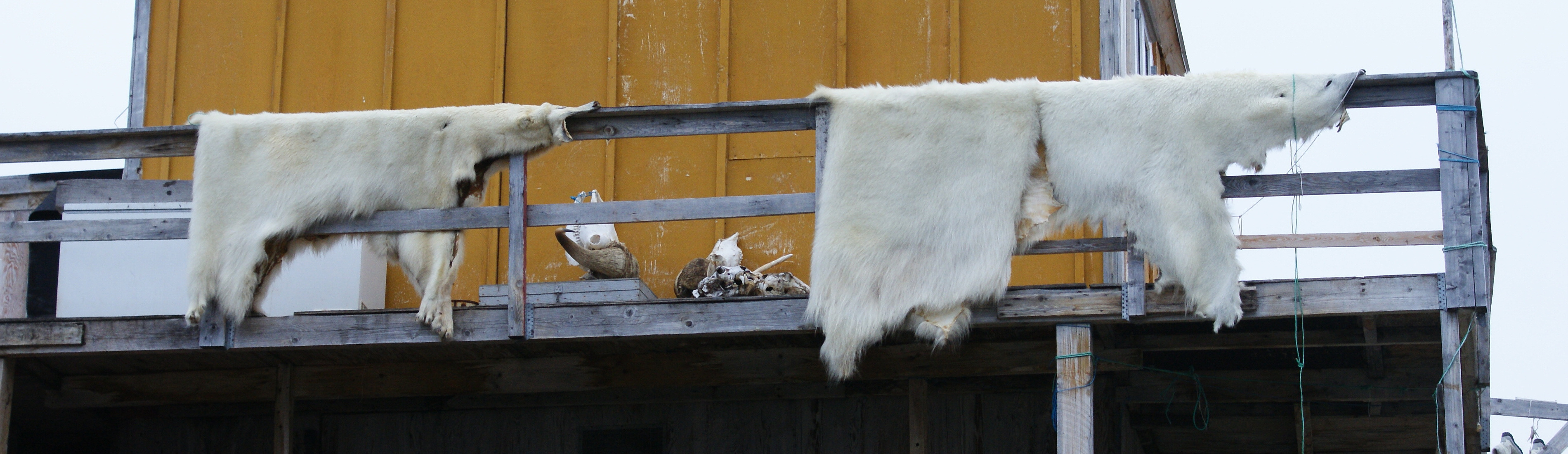 Polar bear skins drying on the verandah of a hunter's house. Nuussuaq, Upernavik Archipelago, Greenland.